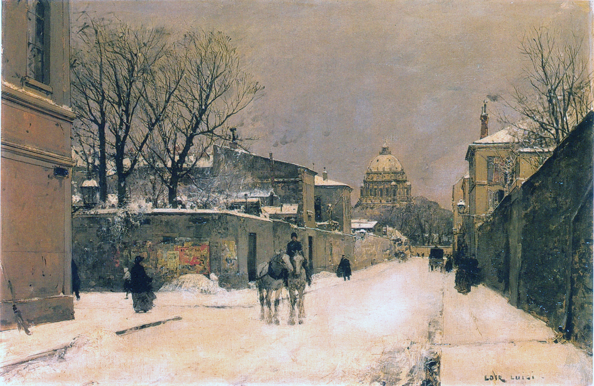 unknown (Paris)